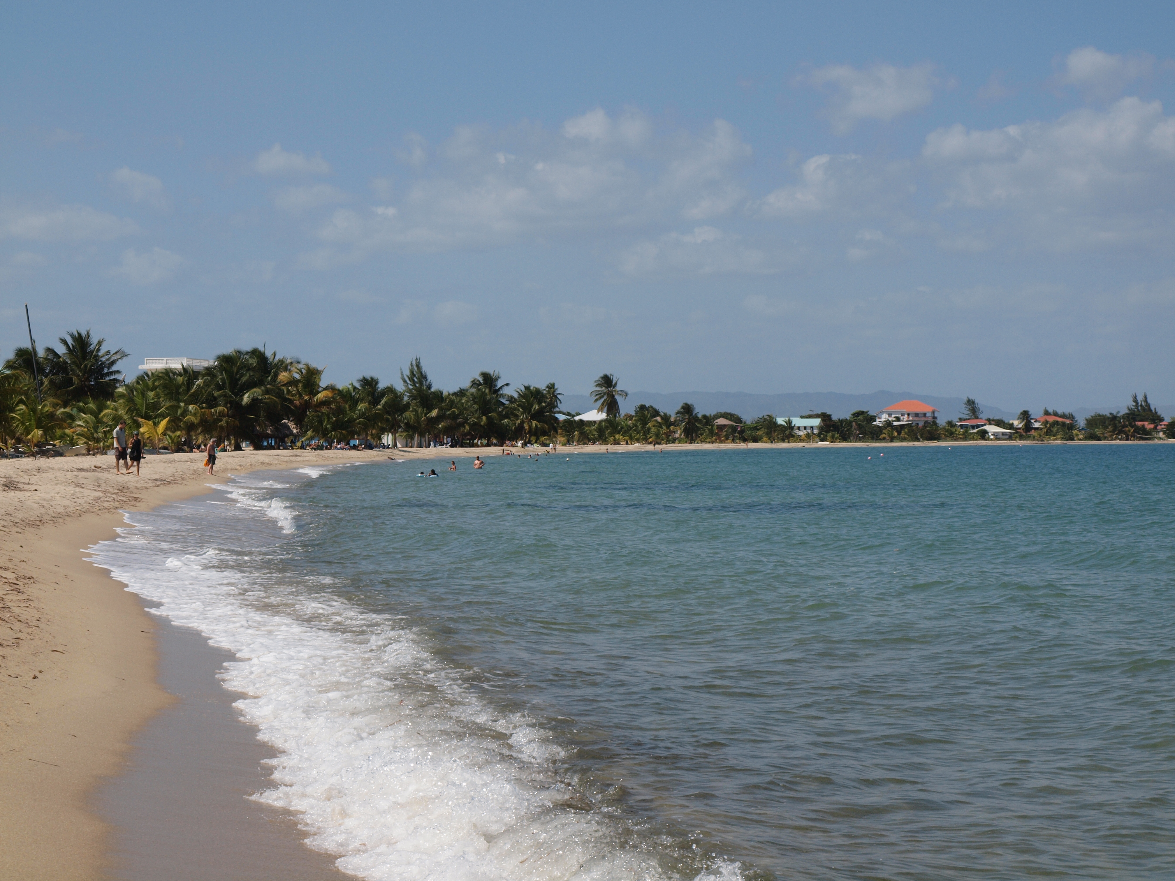 Maya Beach, Placencia, Belize.